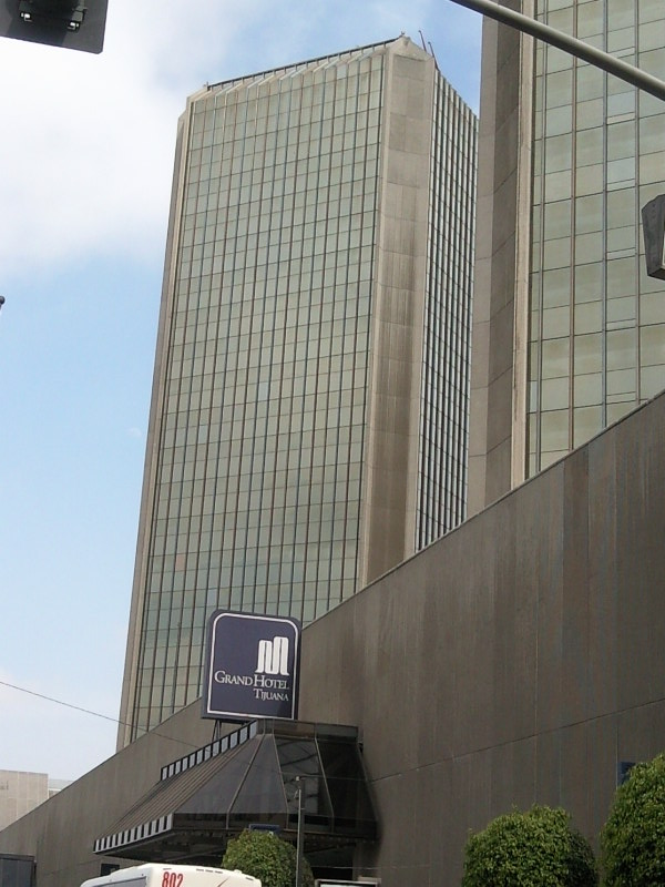 Torres de aguacaliente, Building in Tijuana